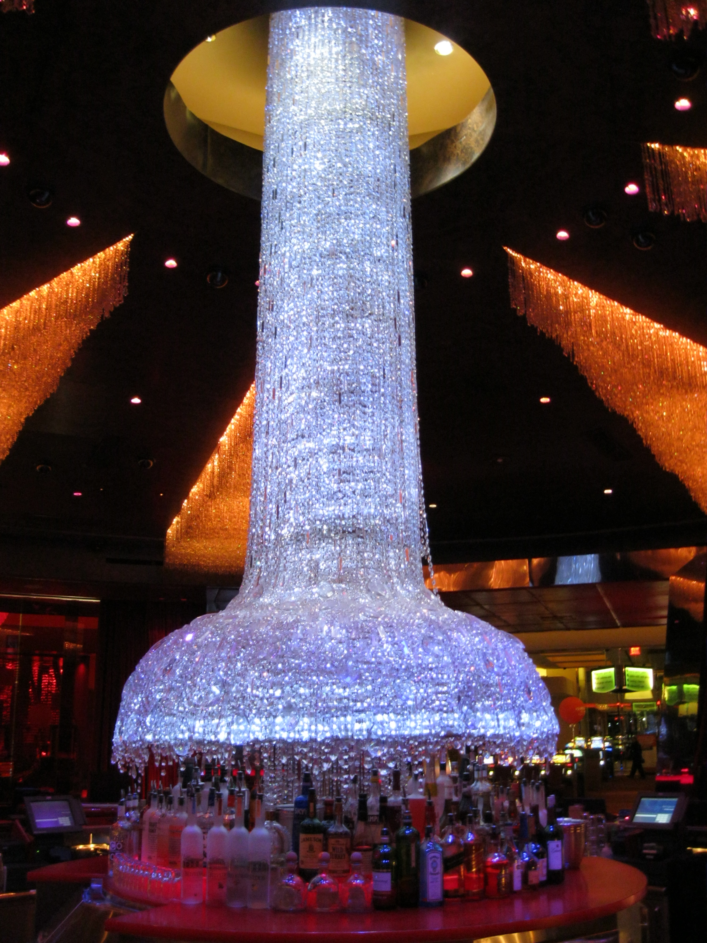 A chandelier at the Lucky Bar, inside the Red Rock casino in Las Vegas.